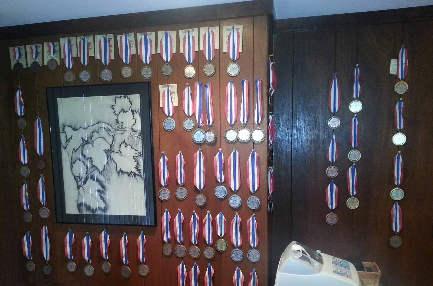 A picture of the tasting room at Sylvin Farms Winery in Germania, NJ. Sylvin Farms has won many awards and medals for its wines.